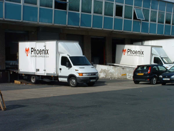 Camienettes Phoenix - Iveco Daily Mk III.